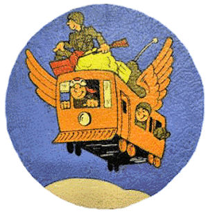 Emblem of the USAAF 66th Troop Carrier Squadron (World War II)